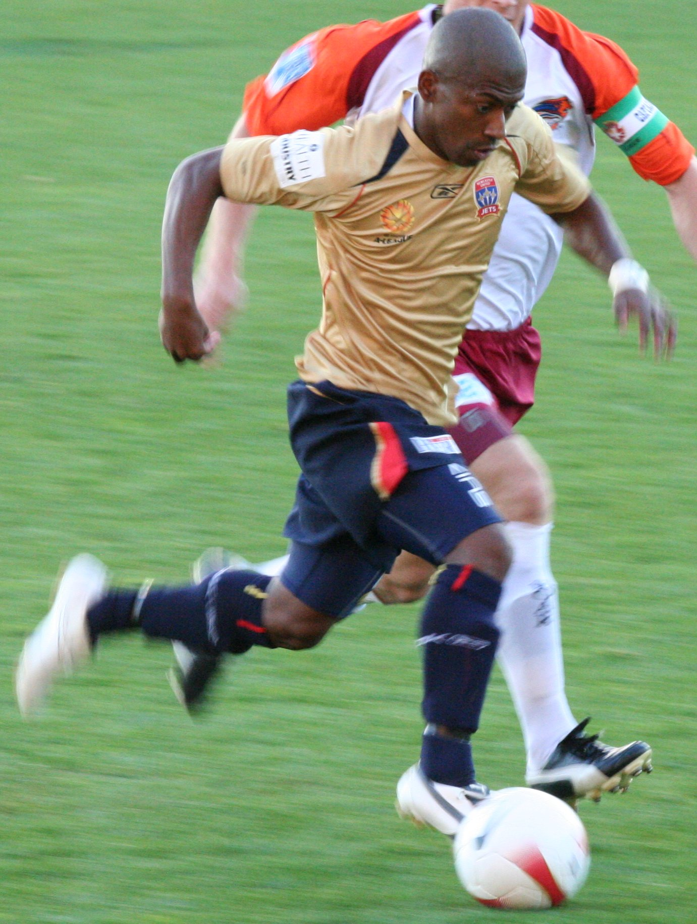 Denni Rocha dos Santos running with the ball in Round 2 of the A-League 2007-08 season